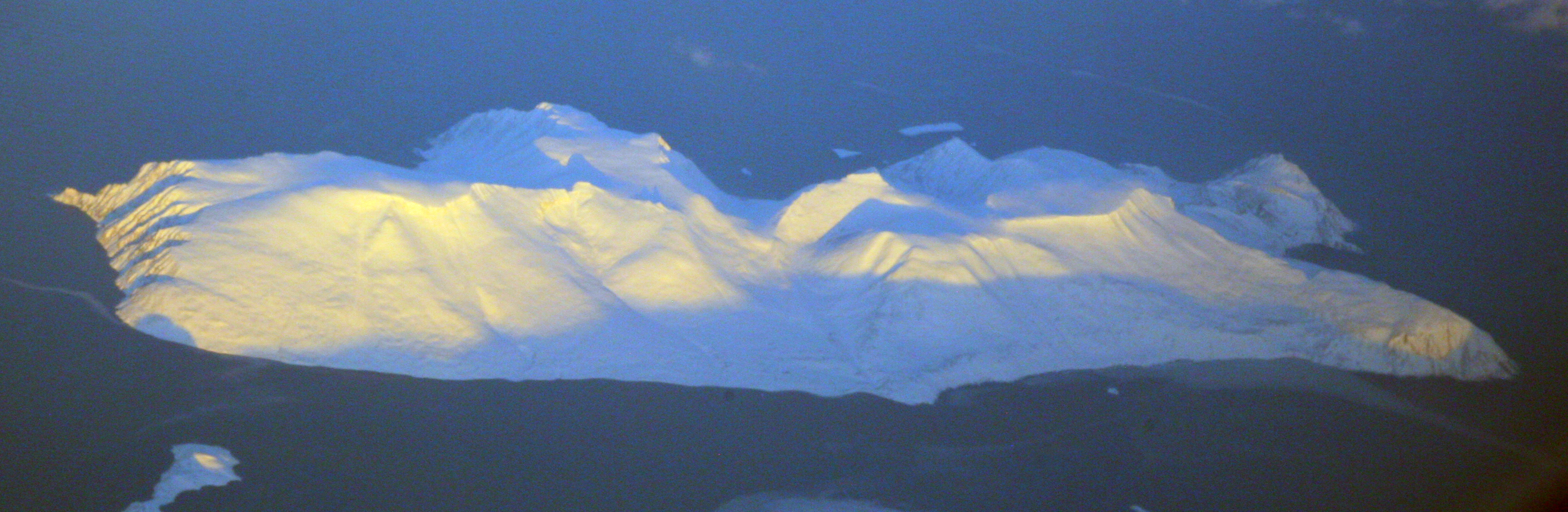 Durban Island, home to the site of the North Warning System.